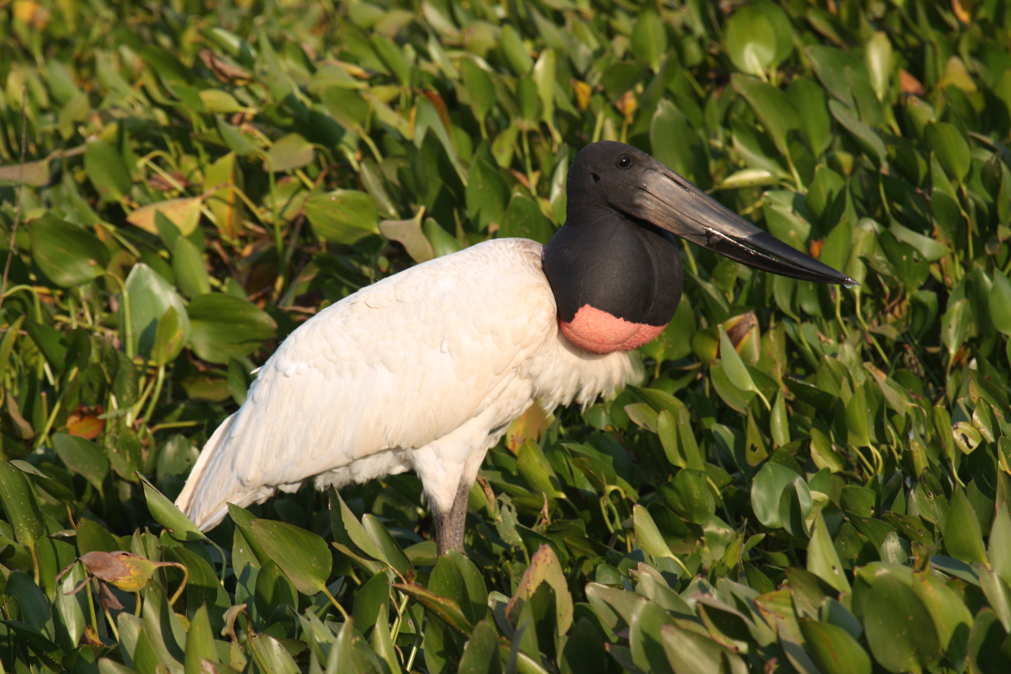 A huge stork, standing up to 140cm tall. Quite common in the Pantanal.